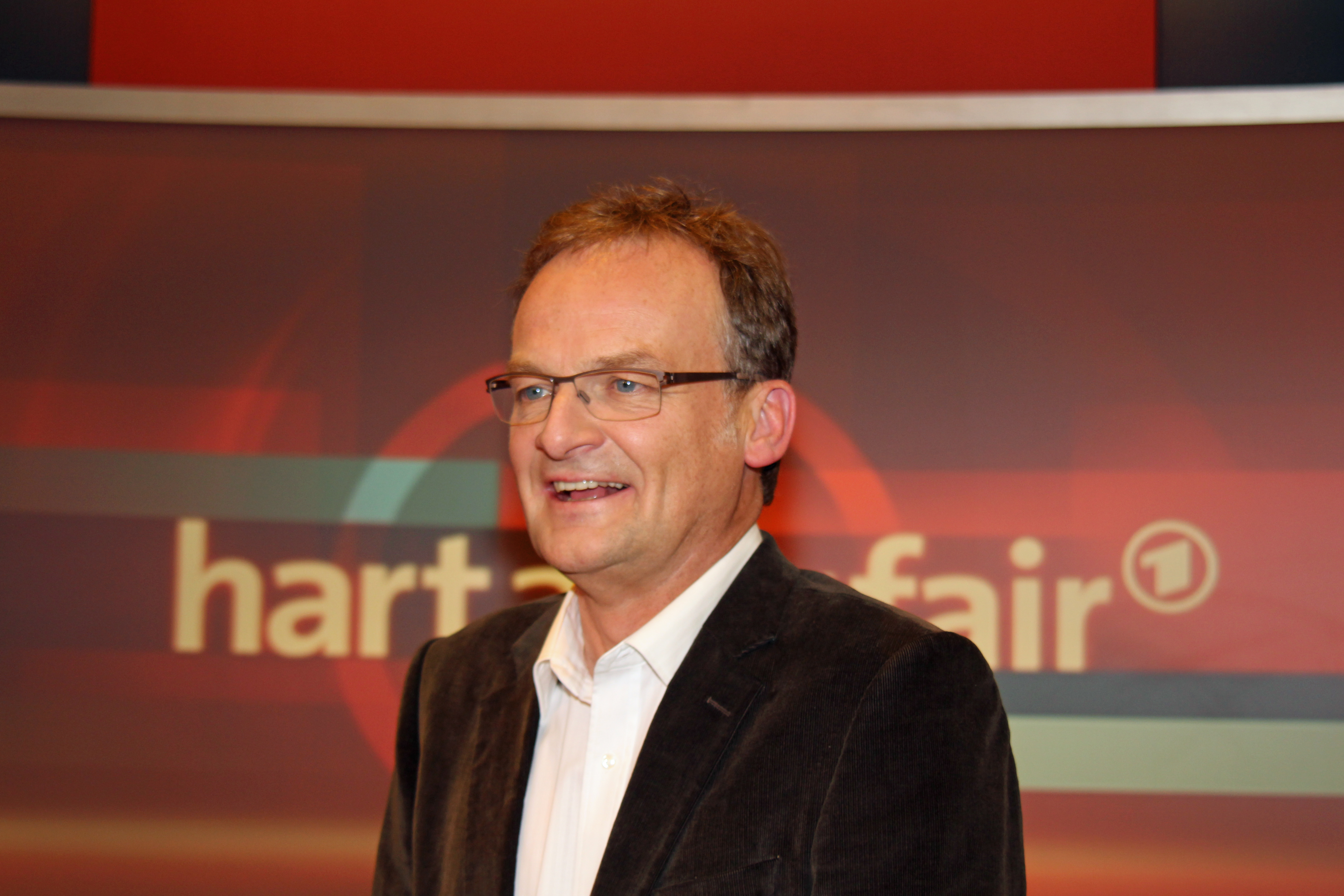 Frank Plasberg, German journalist and television presenter